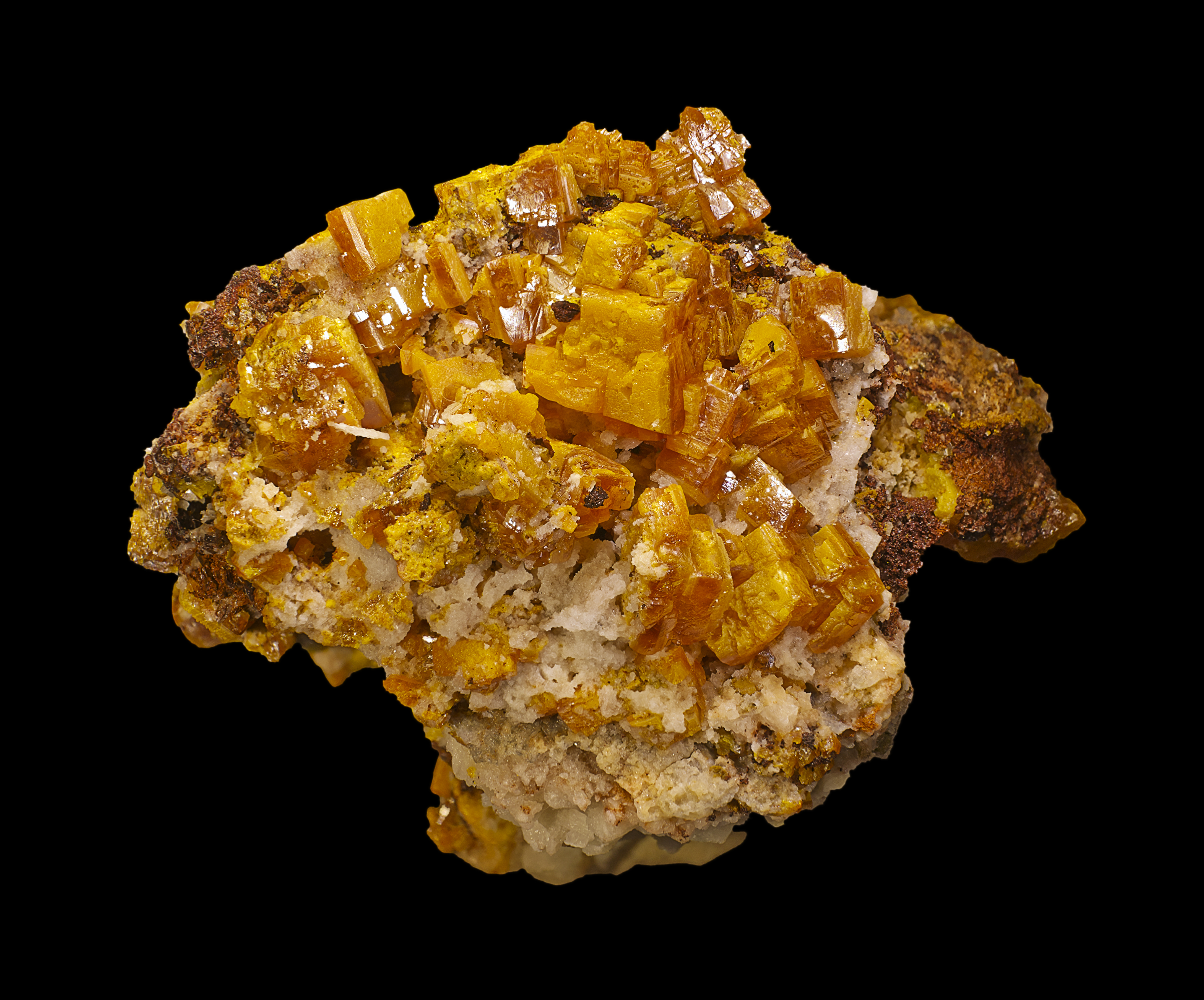 Wulfenite Locality: Carnoulès Mine, Saint-Sébastien-d'Aigrefeuille Gard France Size: 4.5x4x3.2 cm